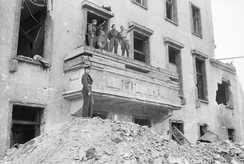 British and Russian soldiers on the balcony of the ruined Chancellery in Berlin, 5 July 1945. British and Russian soldiers on the balcony of the Chancellery, the spot from which Hitler made many of his speeches.